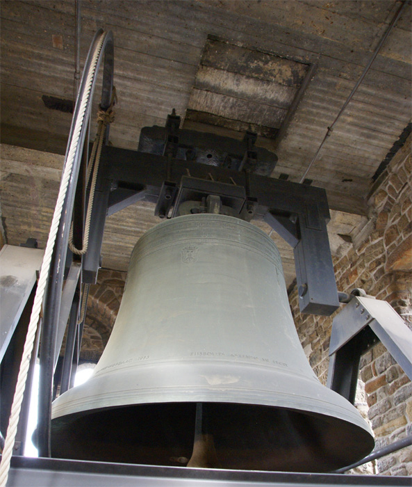 Basilica of Saint Servatius, Maastricht, Netherlands - church bell called "granny"